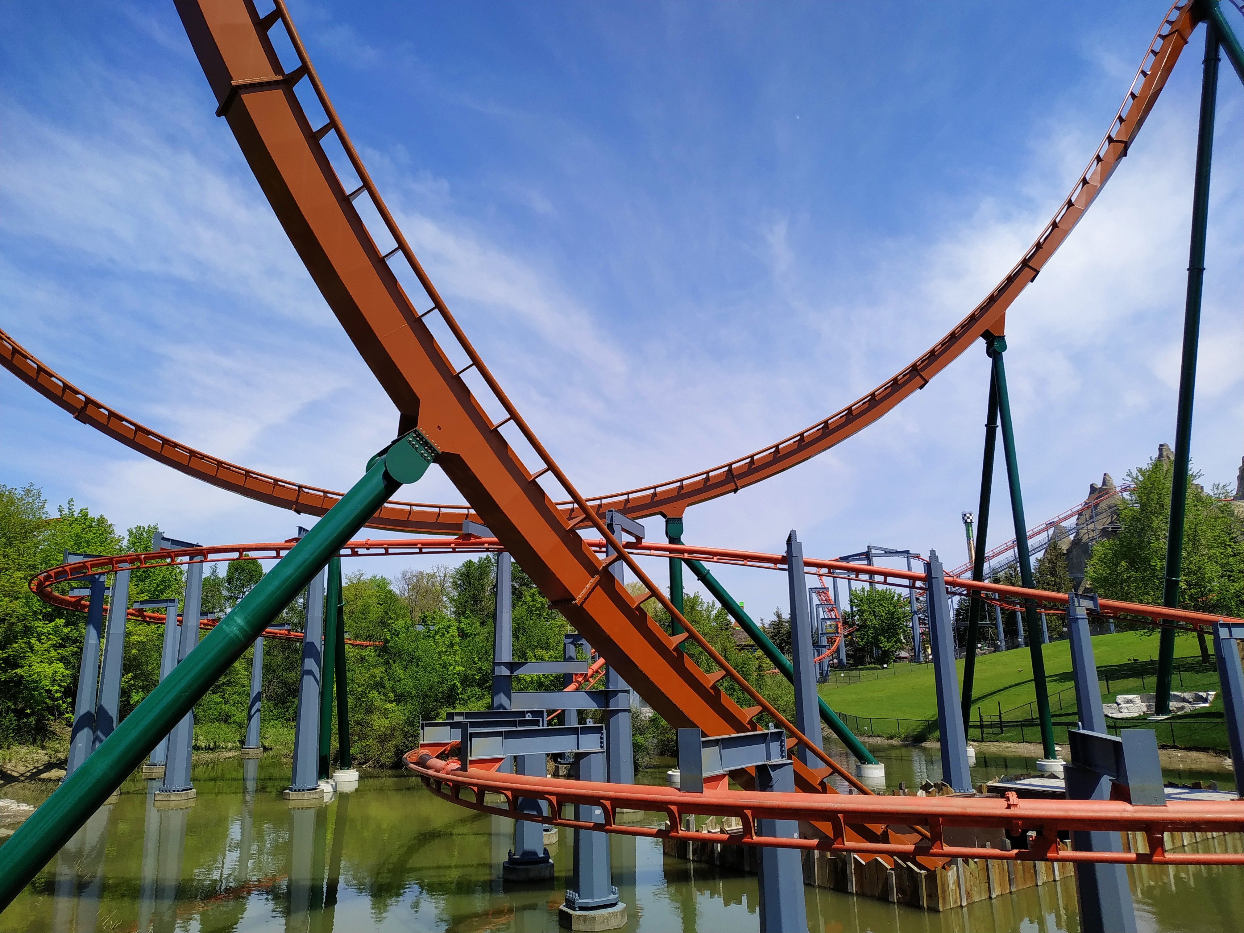 The Yukon Striker and Vortex roller coasters in Canada's Wonderland. The Yukon Striker was newly operational for the 2019 operating season.